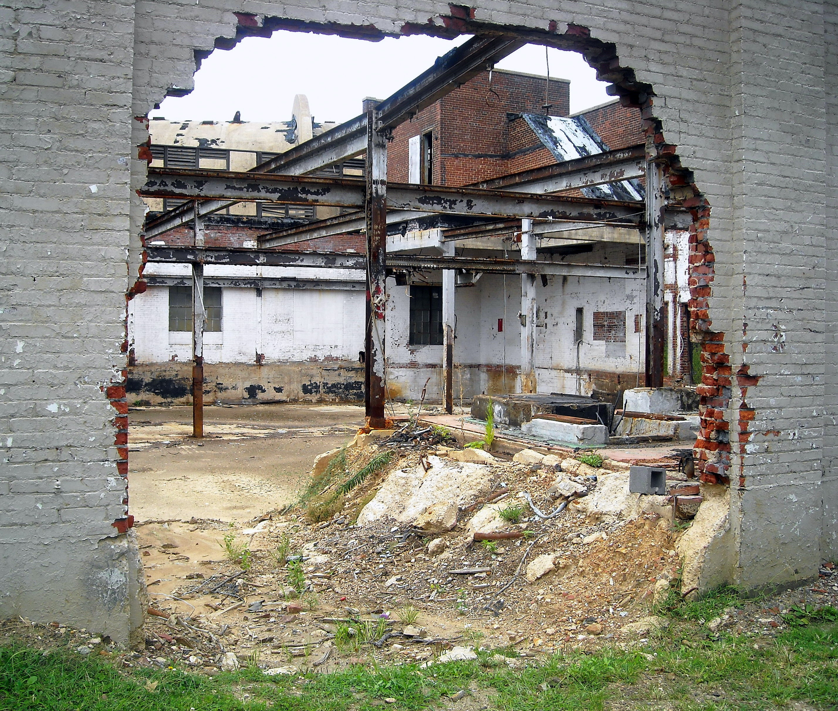 The old Uline Ice Company Plant located at 1146 3rd Street, NE in the NoMa neighborhood of Washington, D.C. Designed by Kubitz & Koenig in 1931, the warehouse facility and neighboring Arena Complex (both abandoned) are listed on the National Register of Historic Places.